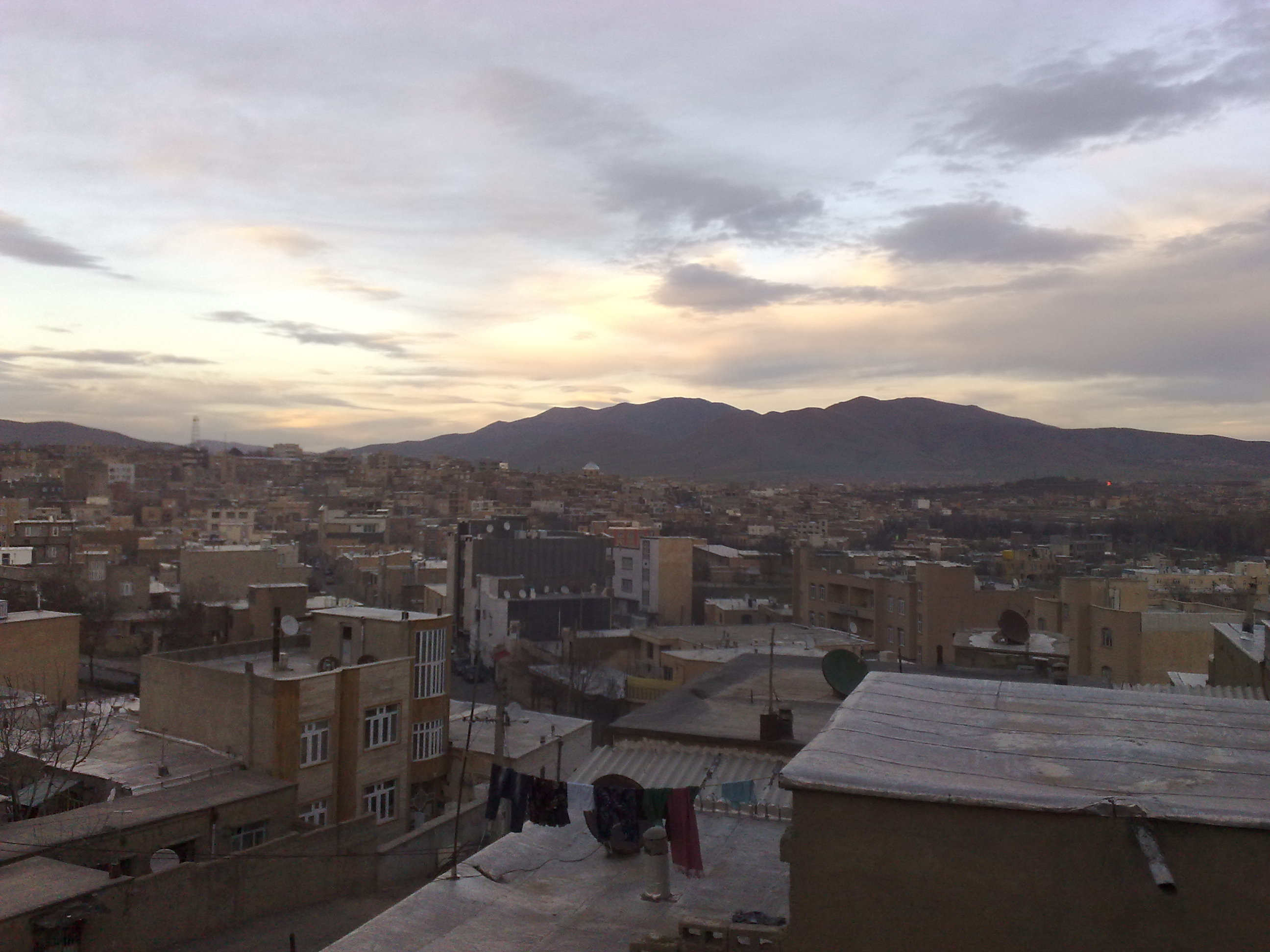 Saqqez in evening